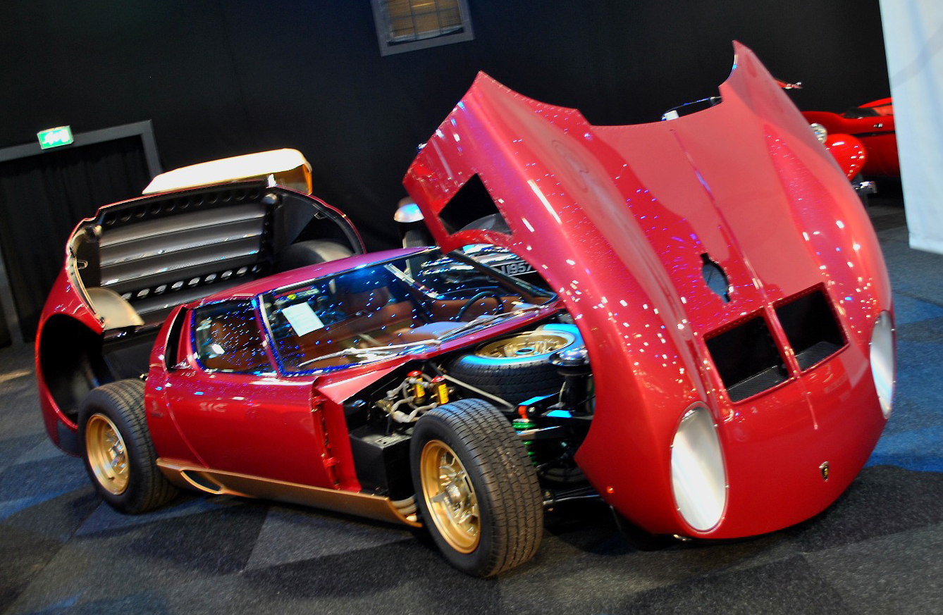 Lamborghini Miura SVJ at 2010 RM Auctions, London